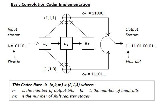 Implementation diagram of a convolution coder (n,k,m) = (2,1,3) configuration.